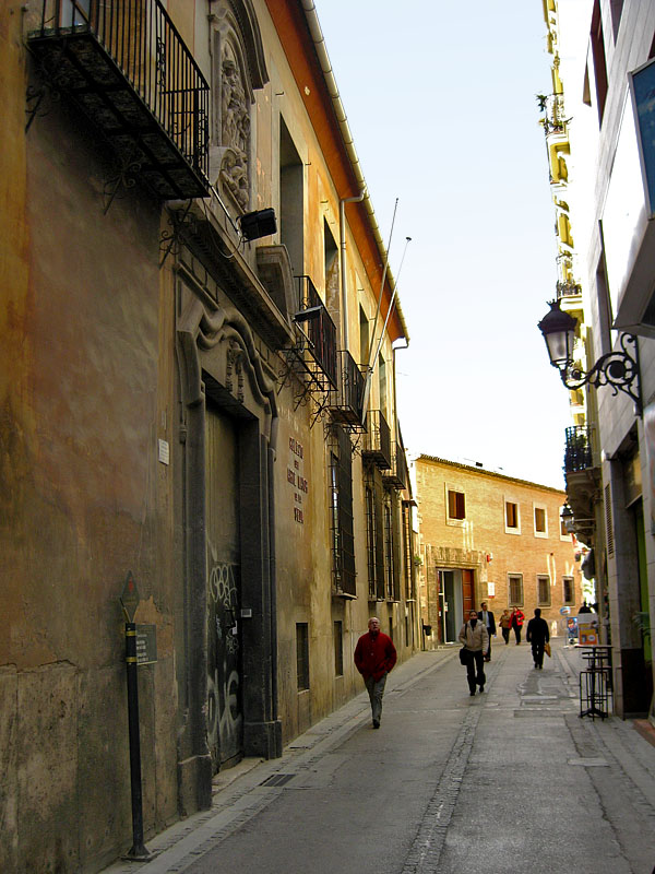 Carrer de l'Hospital, Valencia Spain. Carrer de l'Hospital, València.